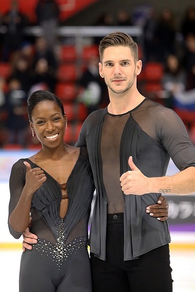 Vanessa James and Morgan Ciprès at the 2018 Internationaux de France - Awarding ceremony